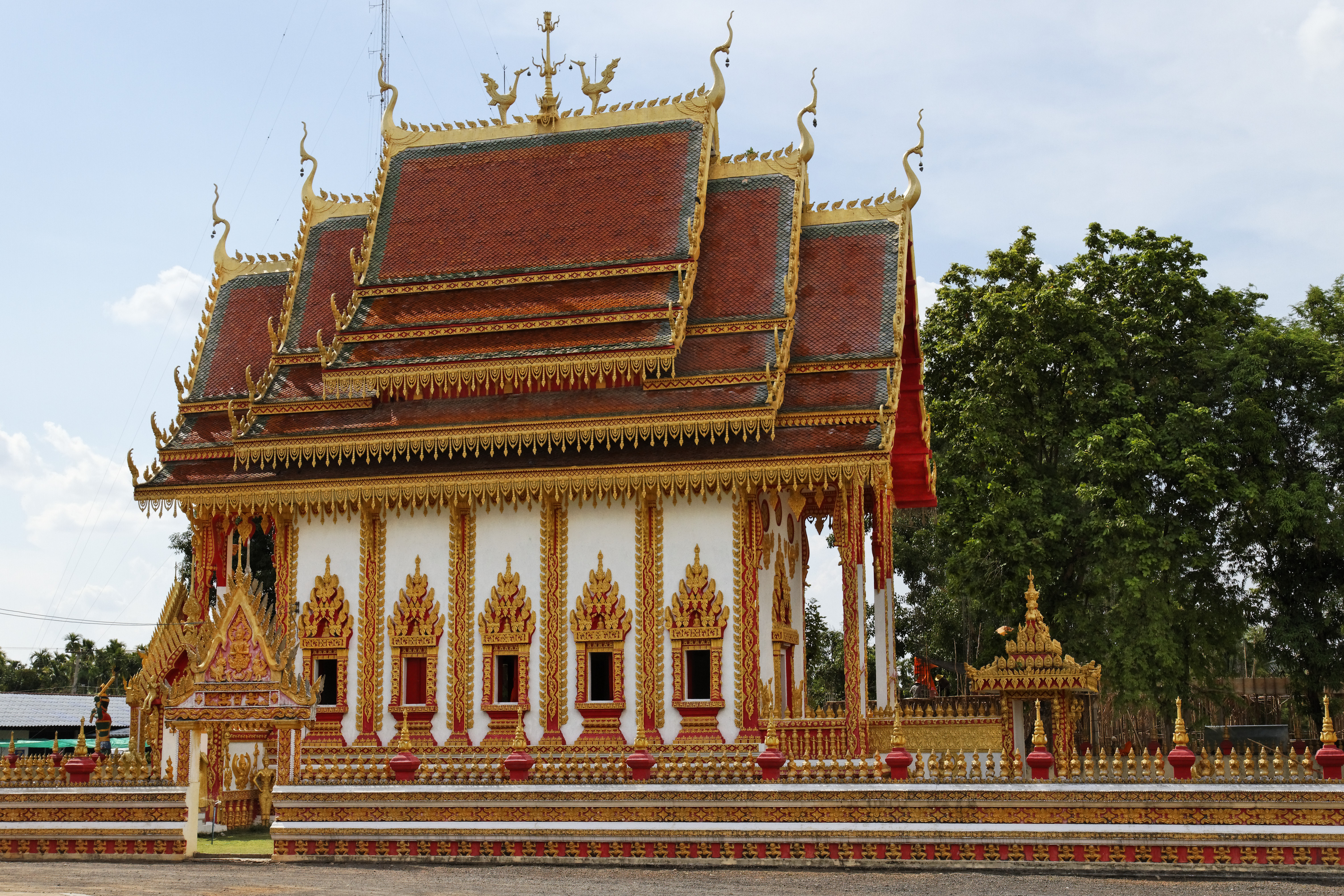 Wat Samrong Kiat is a buddhist temple located in the province of Sisaket, Thailand